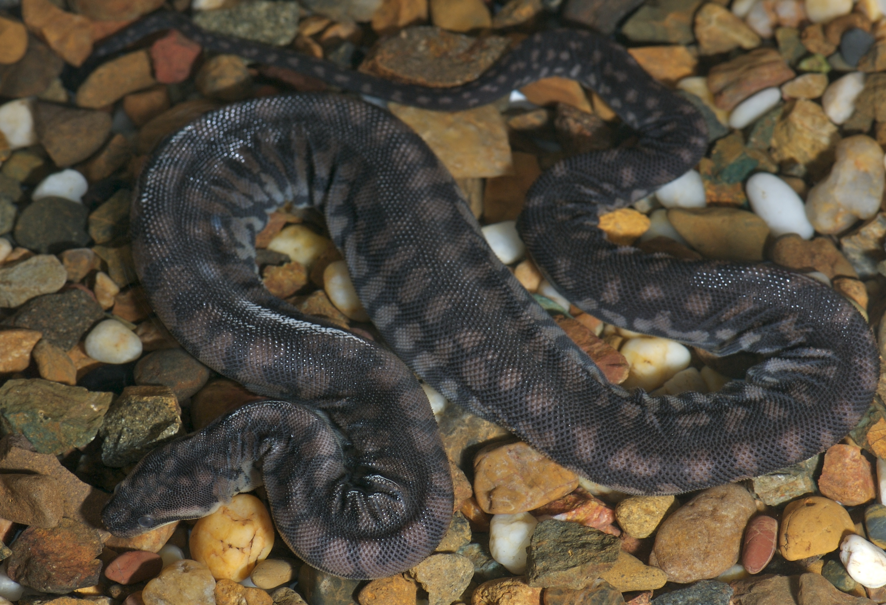 A captive Arafura file snake (Acrochordus arafurae).